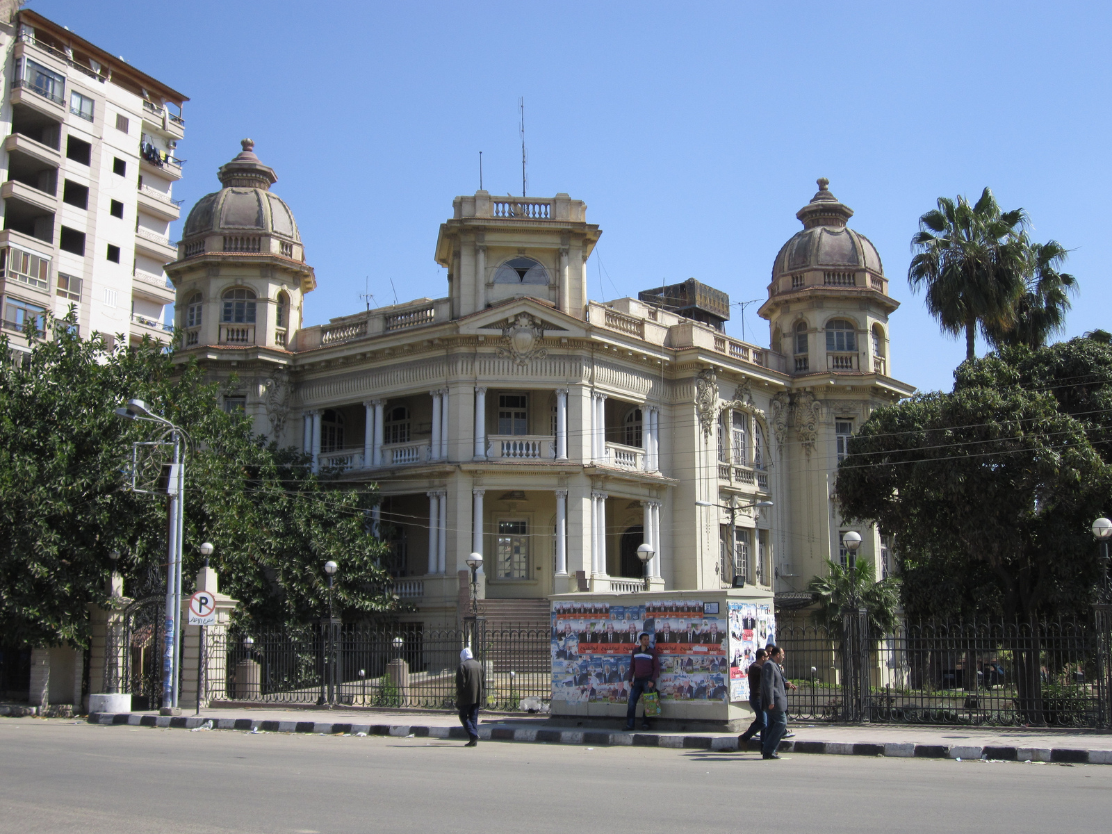 The palace was built in 1928 Palace holds most beautiful palace built outside Italy by Italian design 049239, 31.396383